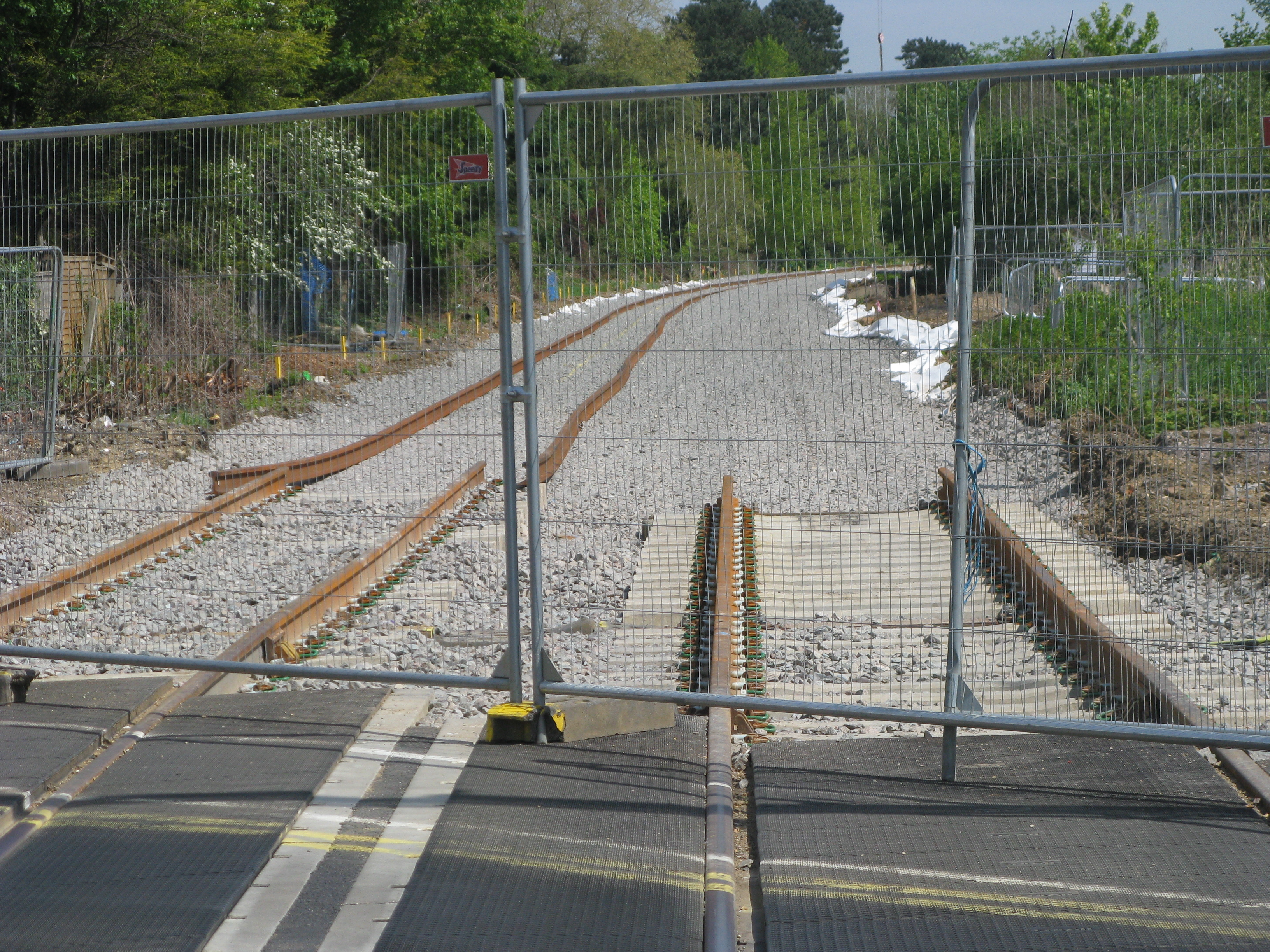 Track improvement work (doubling) on the Oxford to Bicester Line